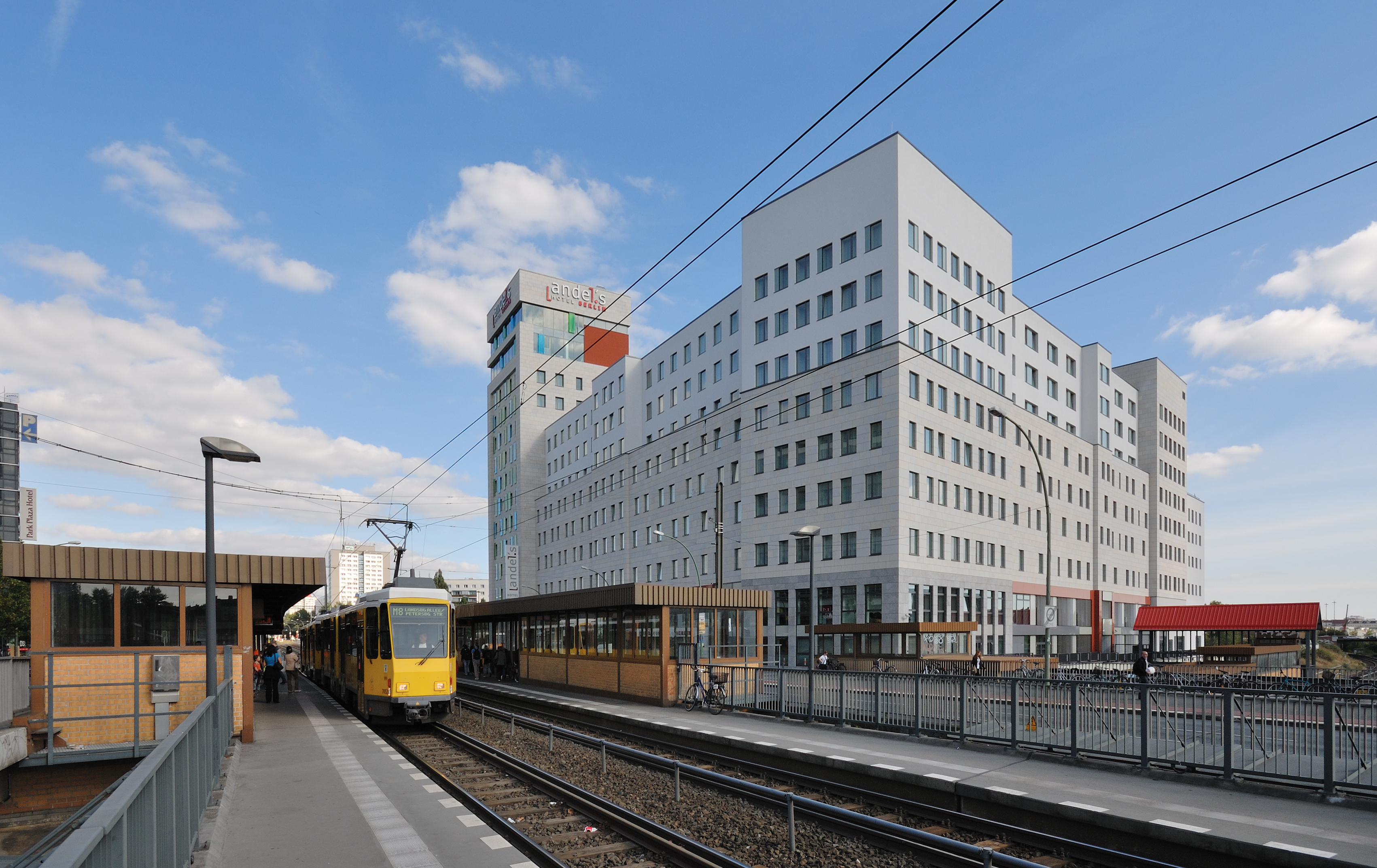 Landsberger Arkaden with "andel's Hotel Berlin" near tram stop S-Bahn station Landsberger Allee.